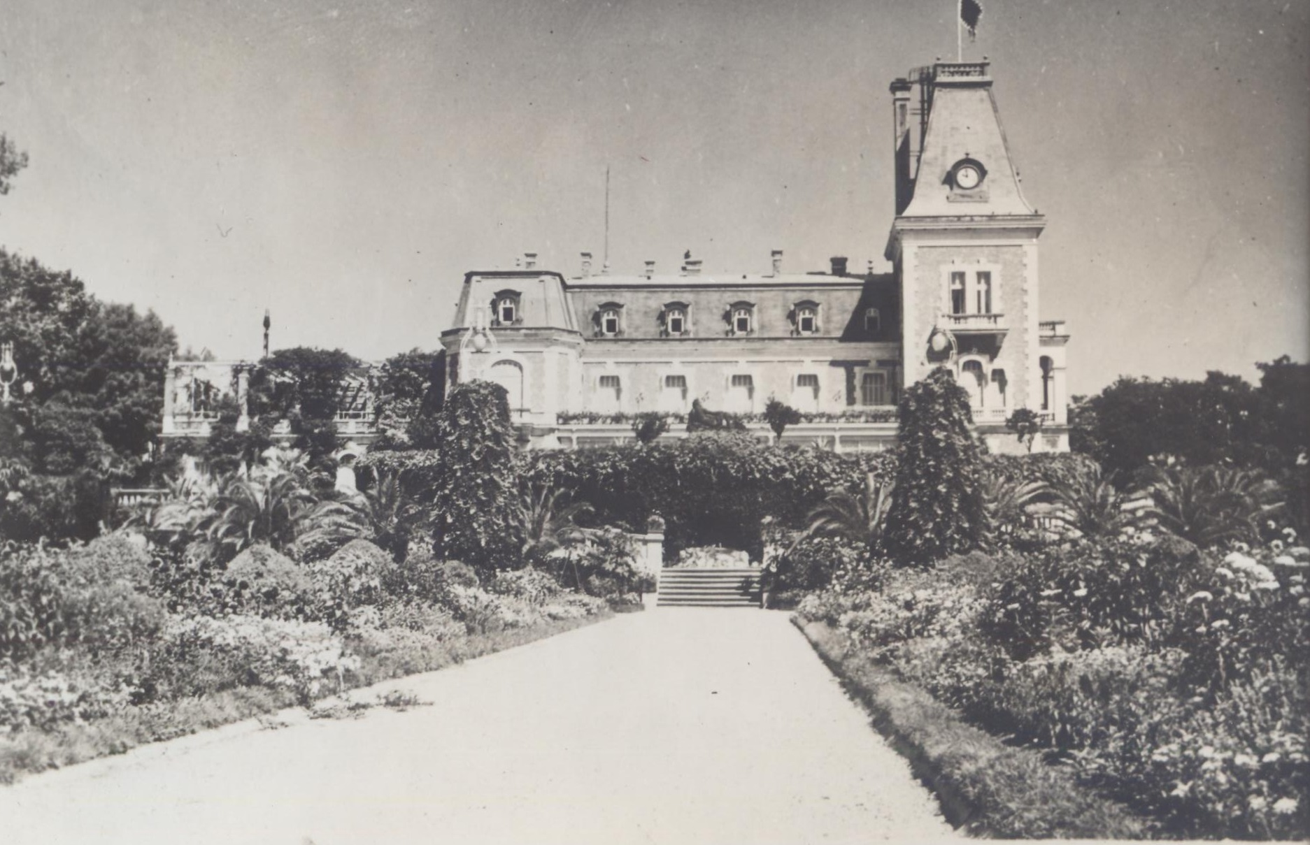 Euxinograd Palace, Bulgaria.